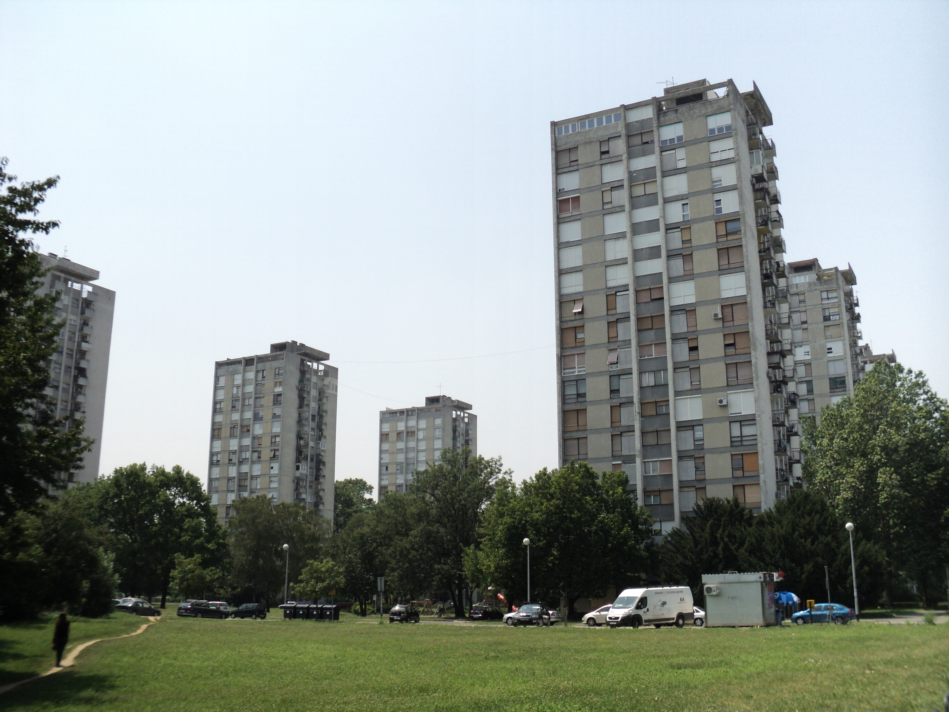 Residental buildings in Siget, Novi Zagreb.